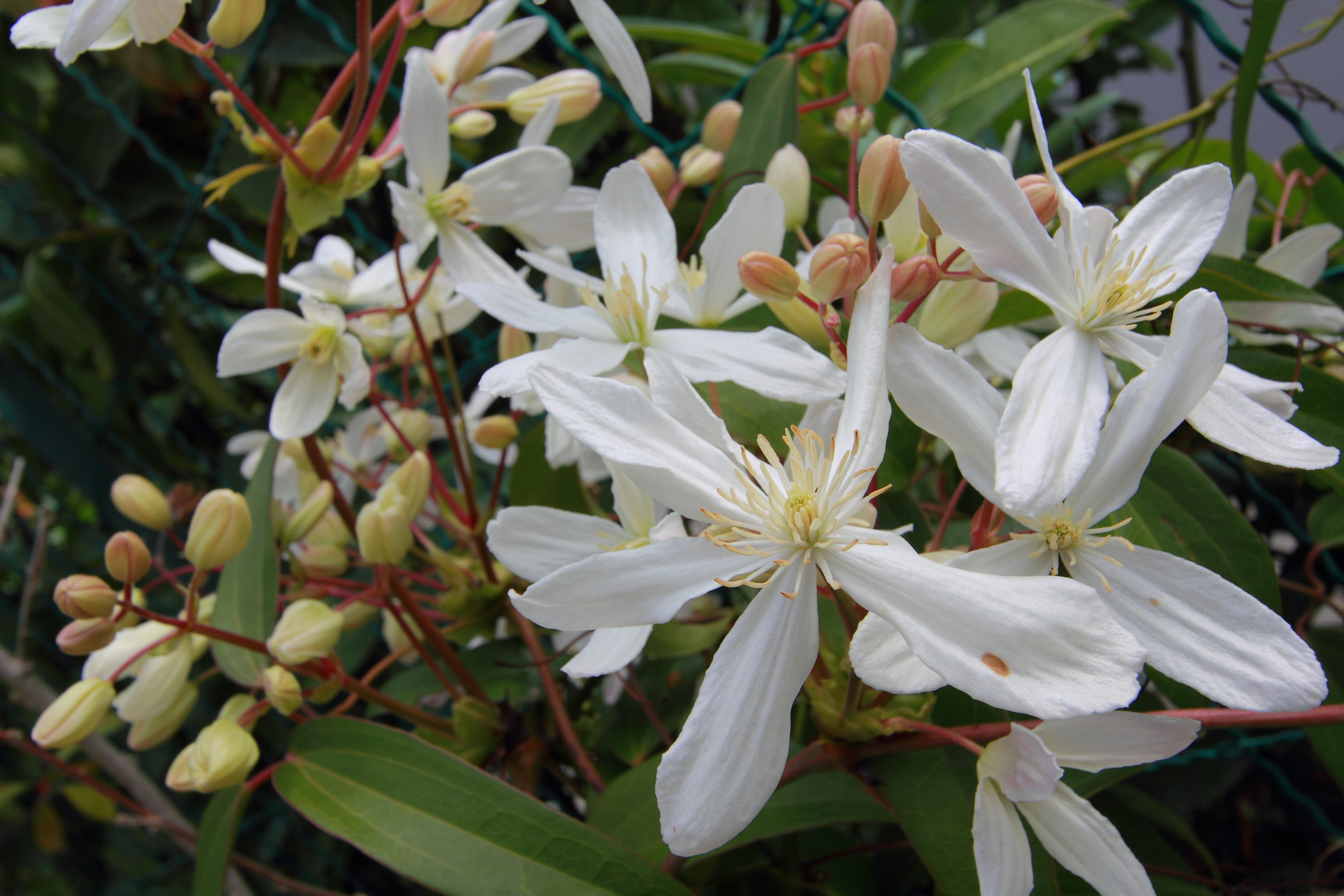 Clematis armandii, floral buds and flowers